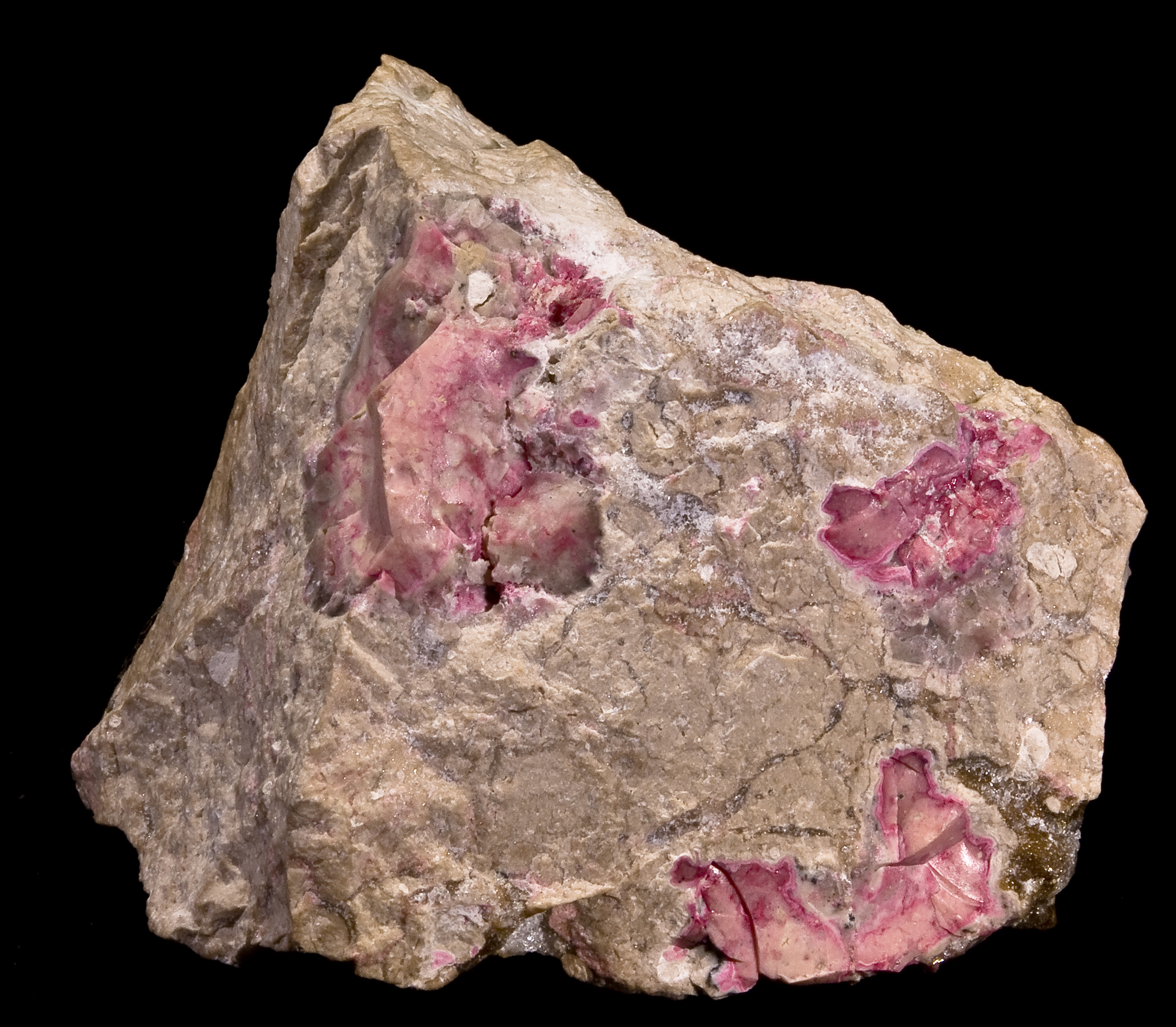 Quincite (Quinzite) Rose-Opal Locality : Quincy-sur-Cher, Bourges, Cher, Centre, France Size : (8x8cm)